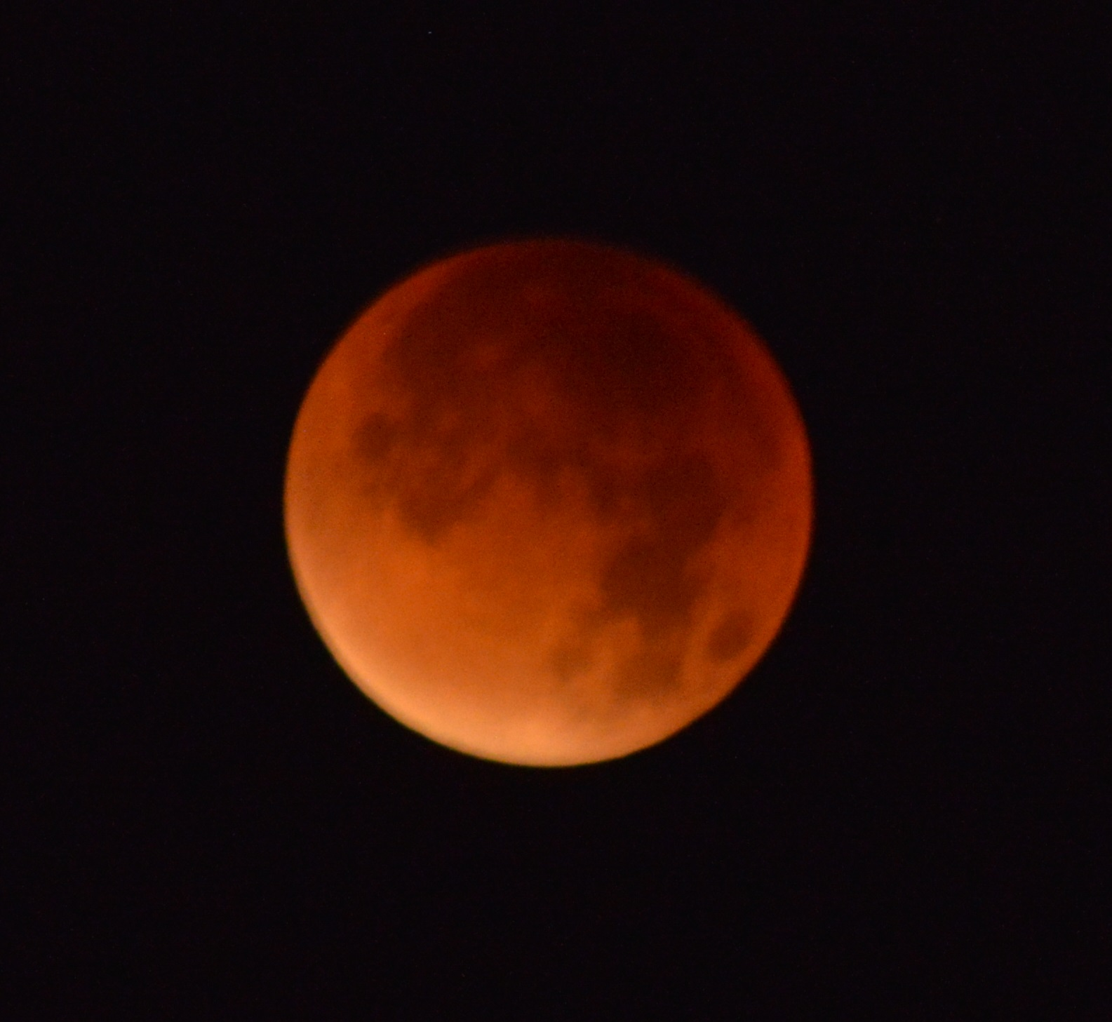 lunar eclipse taken at Oberuster, canton of Zürich, Switzerland